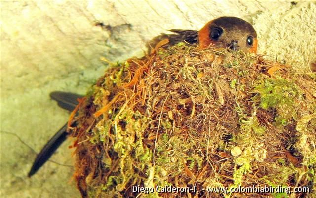 La Romera, Colombia. Digiscoped using Nikon Fieldscope ED50 (with 20X MC WA EP) + Canon SX210 IS PowerShot camera